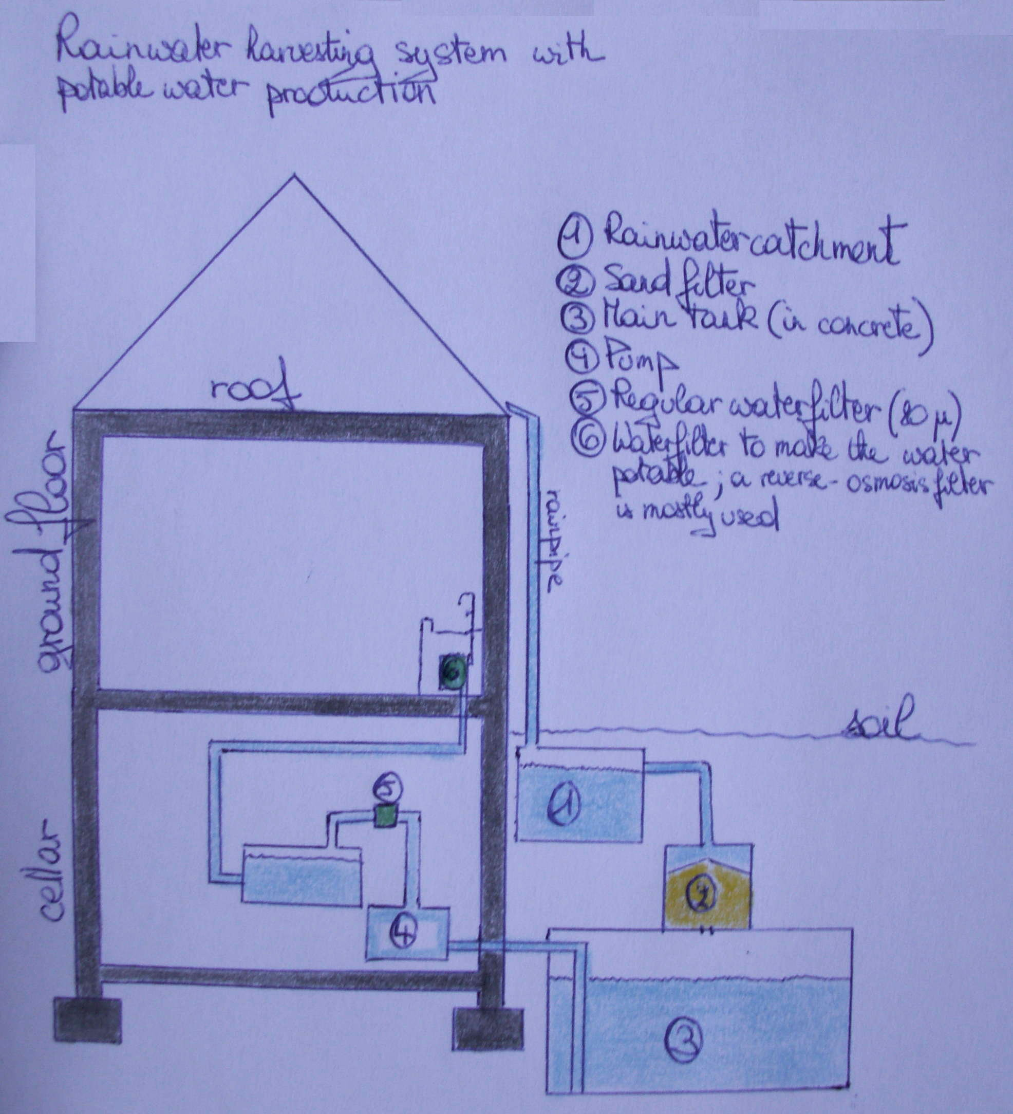 A hand-drawn picture of a rainwater harvesting system in which potable water production (trough filtering) is imbedded. It is based on a drawing from the book "Duurzaam en Gezond Bouwen en Wonen" by Hugo Vanderstadt.